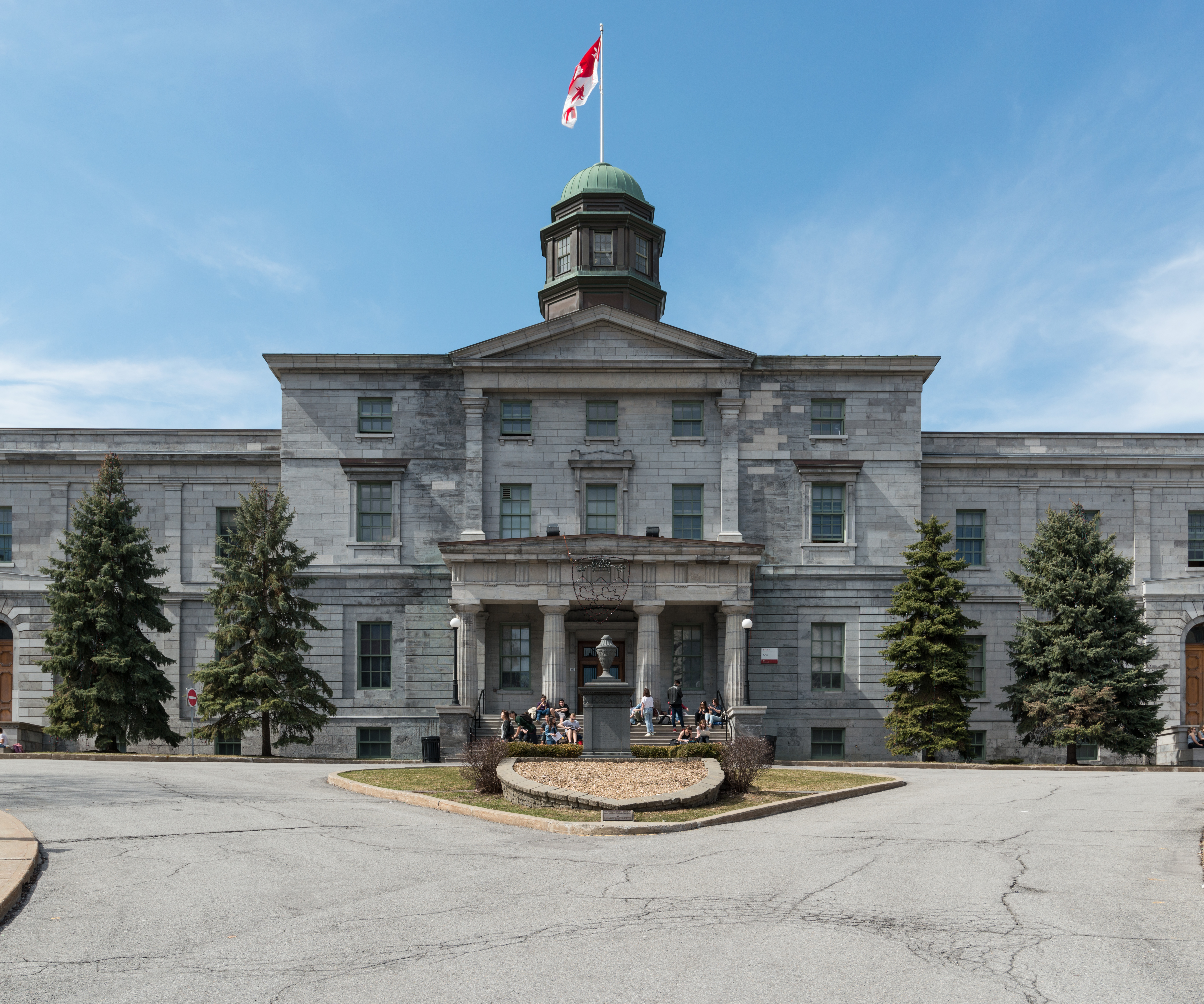 A southeast view of the Arts Building of McGill University, Montréal